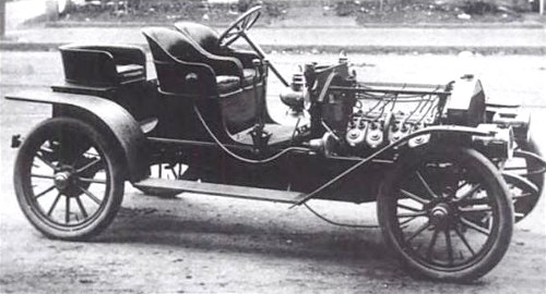 1905 Buffum 12 HP Model F 3-passenger runabout was the smallest offering of the H.H. Buffum Co. in Abington MA. Price of the four cylinder car was $1200.